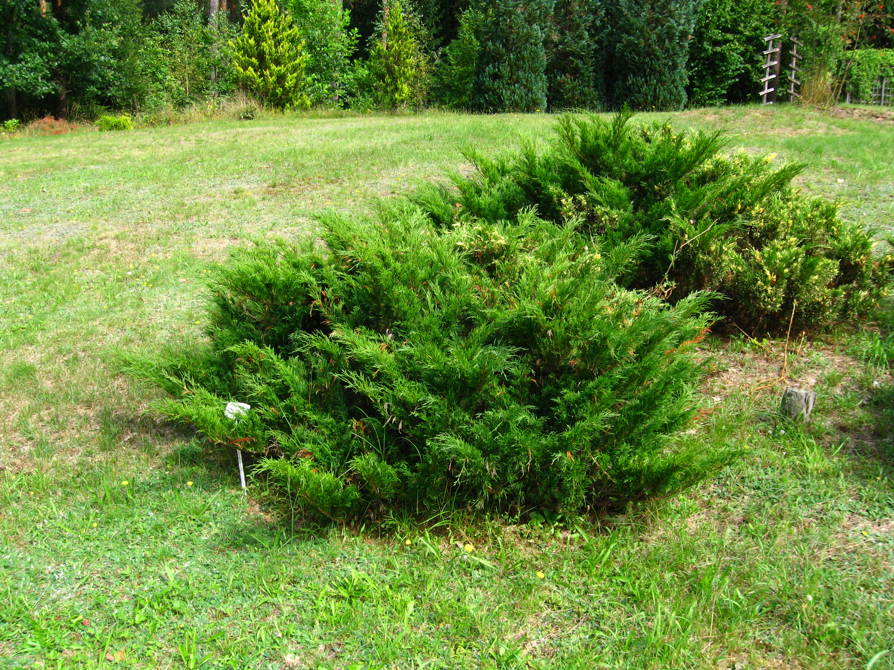 Savin Juniper var. Variegata (Juniperus sabina 'Variegata')